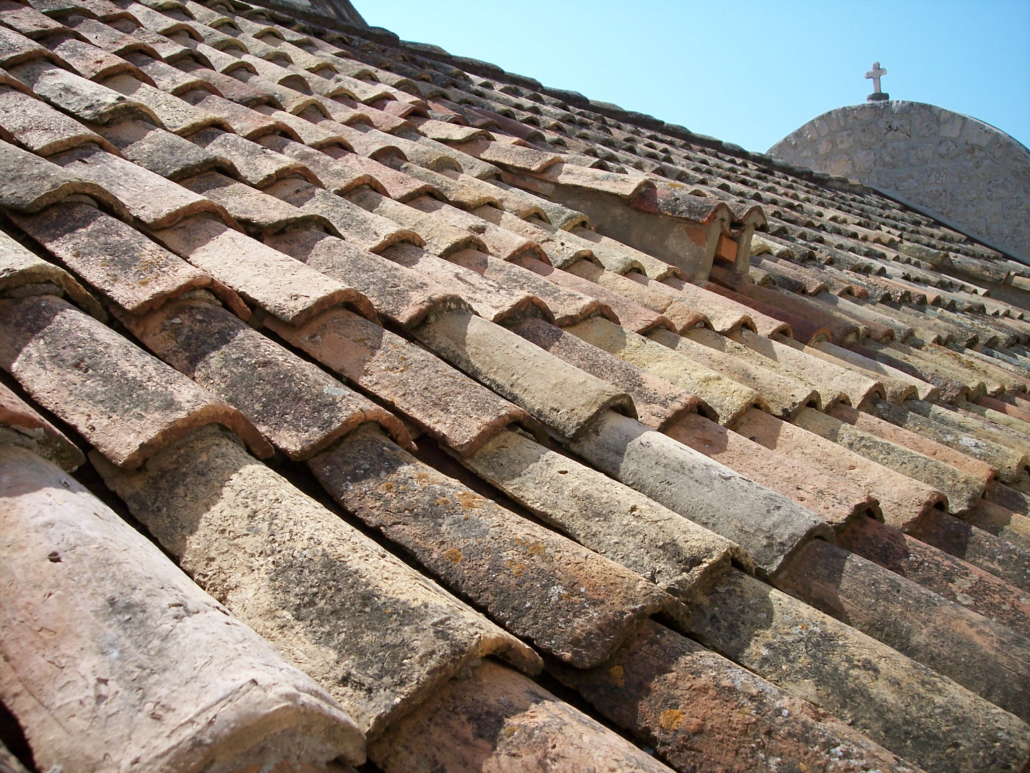 Tiled roof in Dubrovnik (Croatia).